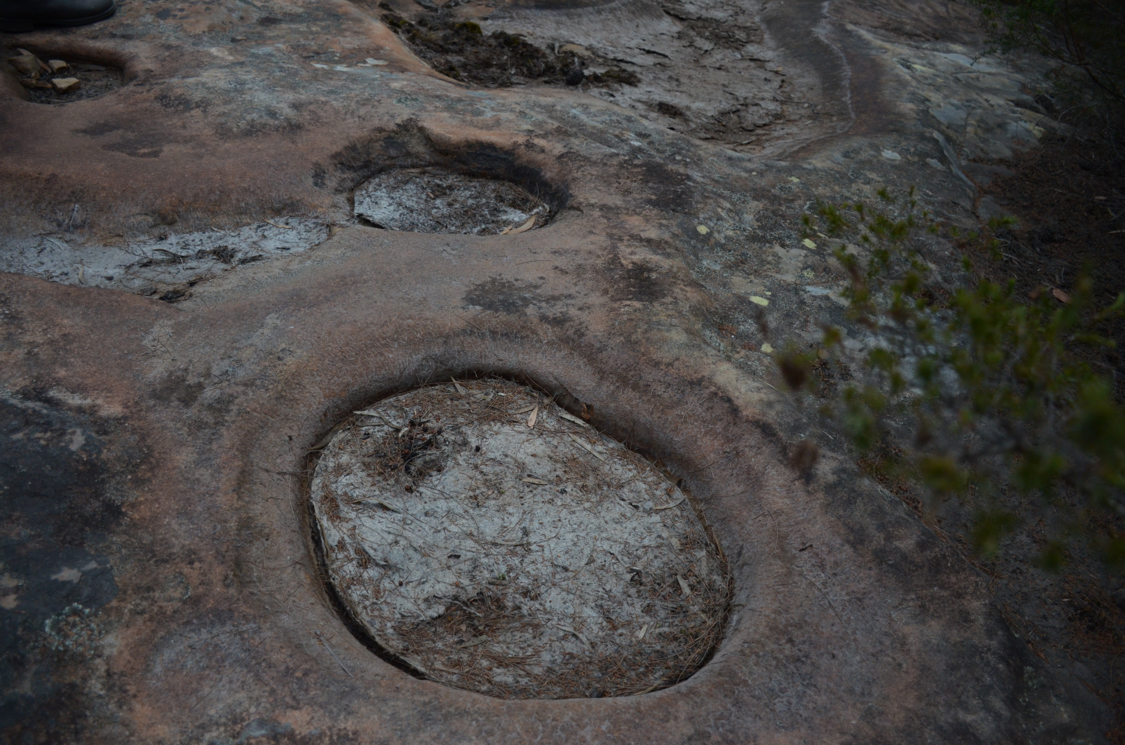 Uncle Bob's place.